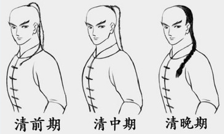 qing's hair style